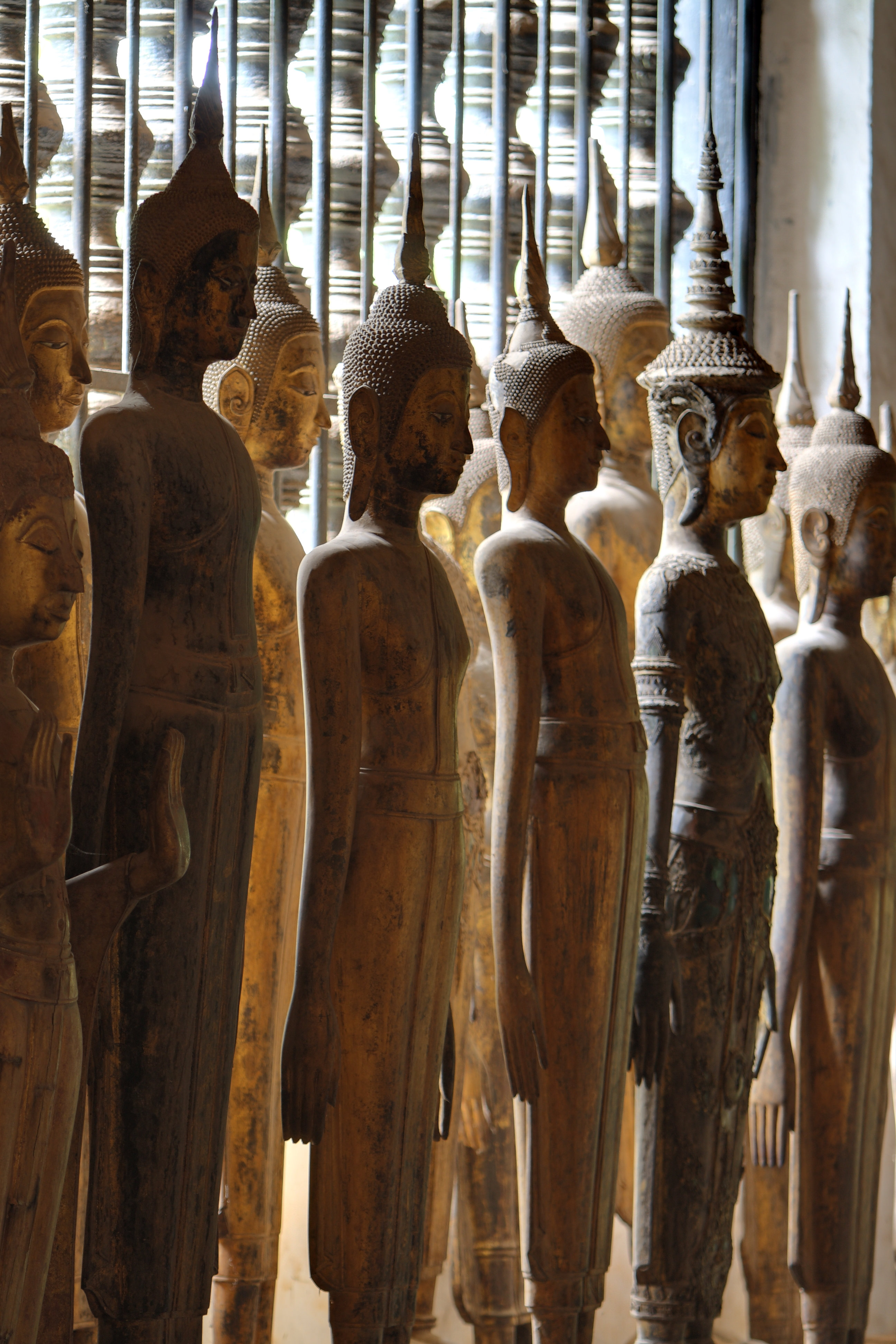 Statues of Buddhas, in the Wat Wisunarat temple, in Luang Prabang, Laos